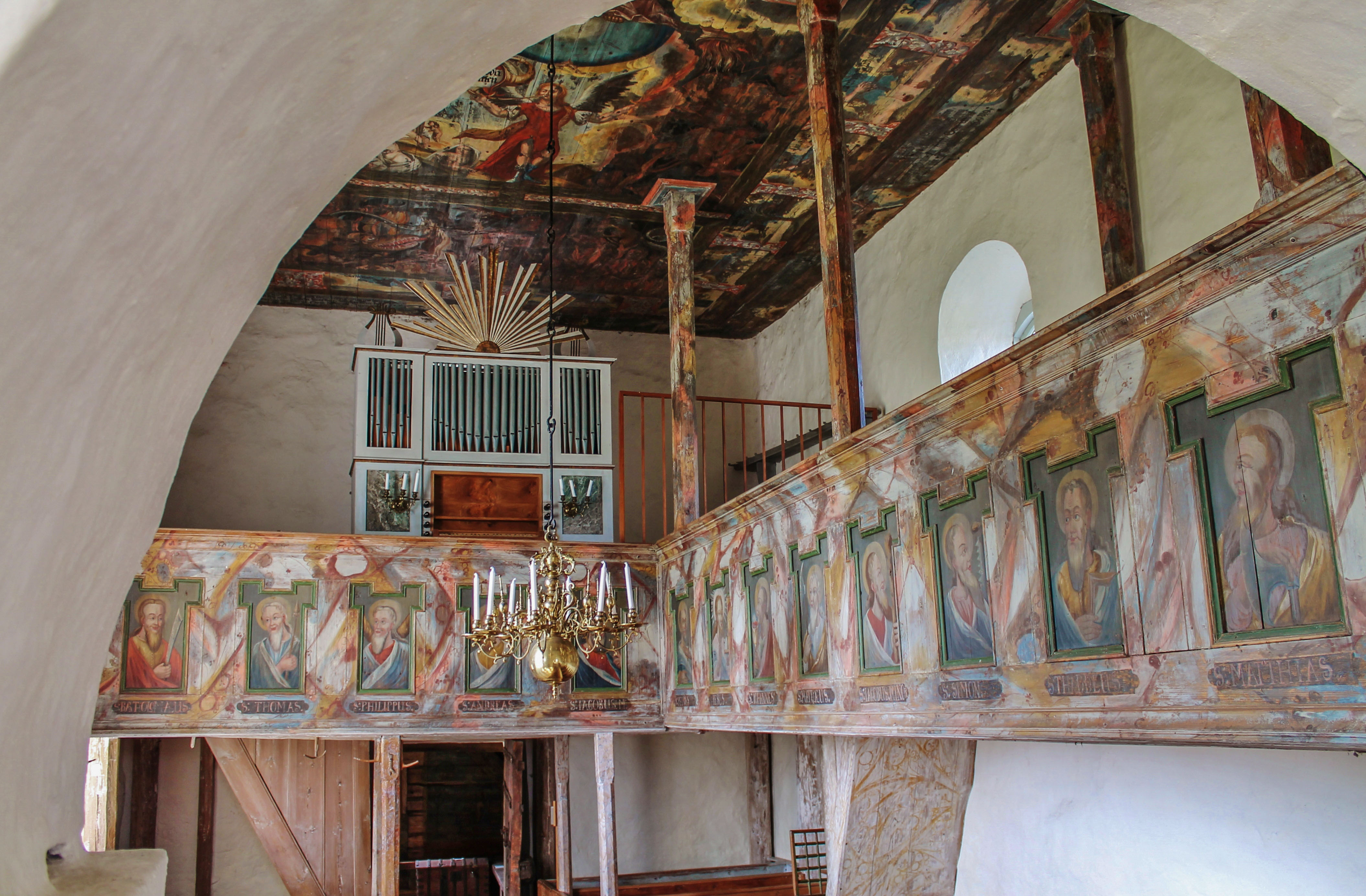 Jäts old church with a gallery and organ